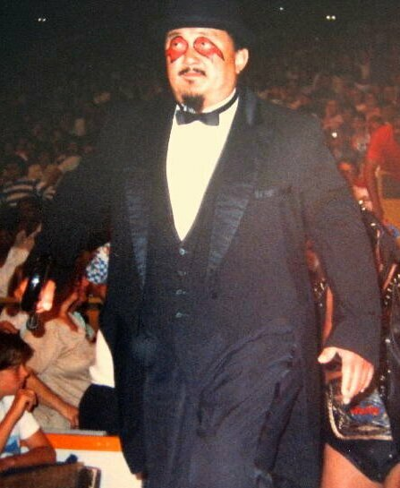 Wrestler Mr. Fuji